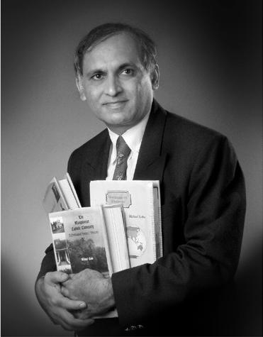 Photo of Michael Lobo, an Indian writer, and genealogist. He is the author of Mangaloreans Worldwide - An International Directory (1999), Distinguished Mangalorean Catholics (2000), A Genealogical Encyclopaedia of Mangalorean Catholic Families (2000), and The Mangalorean Catholic Community - A Professional History / Directory (2002).